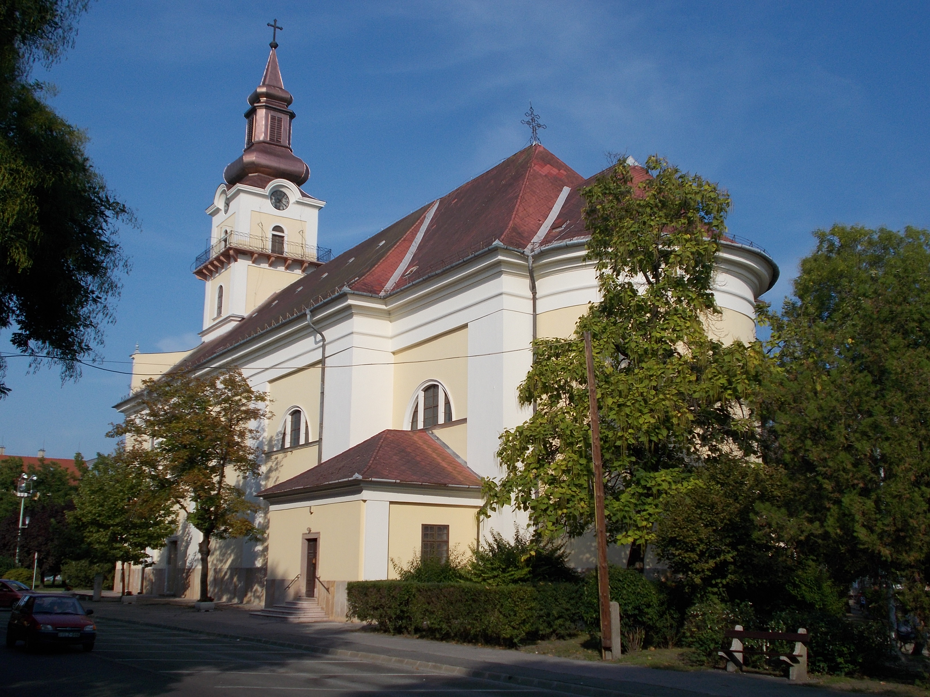 Exaltation of the Holy Cross church. Built by Ferenc Homályossy in 1827 . Listed ID 6941 . A parish church part of the Roman Catholic Diocese of Vác. - Kossuth Sq., Cegléd, Pest County, Hungary